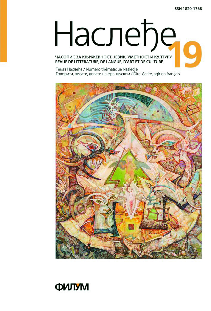 Cover of scientific journal Nasledje (Kragujevac), Kragujevac, Serbia